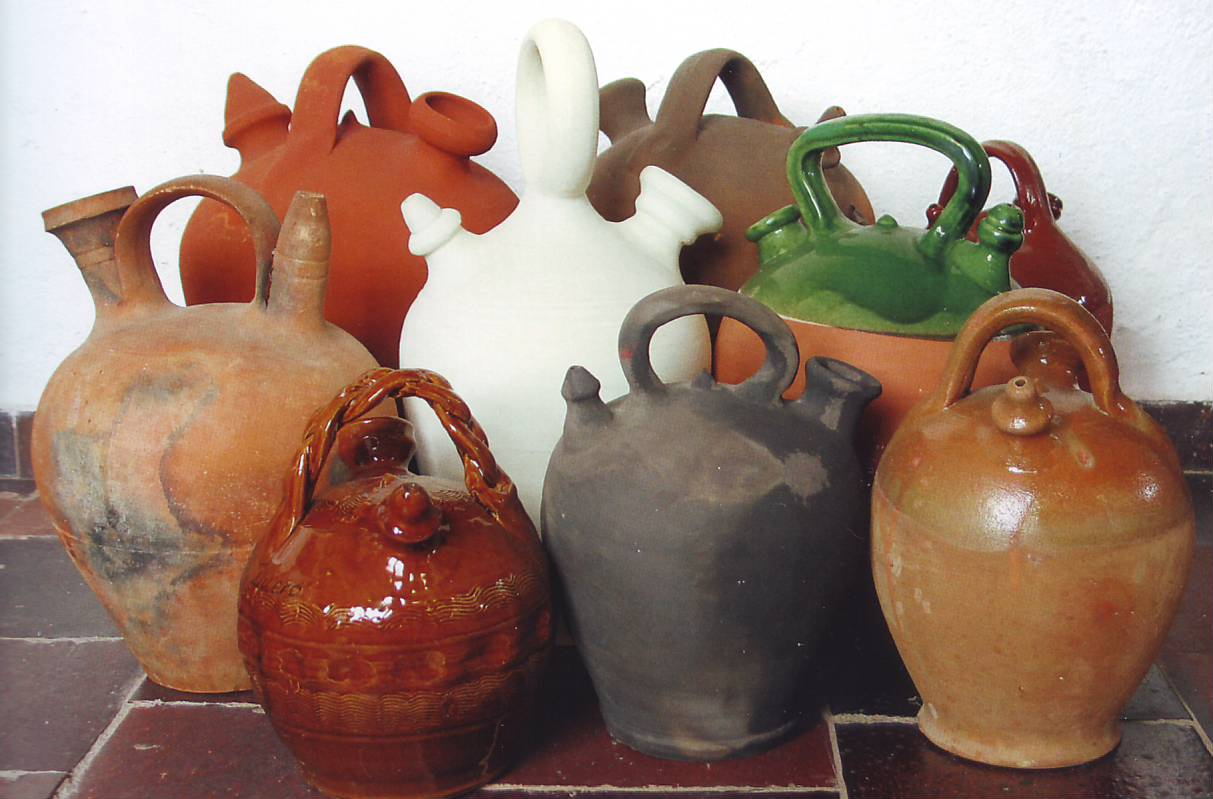 Botijo collection. Museum Chinchilla Montearagón ceramic material. Pillar Belmonte Useros composition.